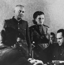 The first judicial trial of the Nazi officials at the Majdanek extermination camp took place from November 27, 1944, to December 2, 1944 in Lublin, Poland. In this photograph, Anton Thernes, standing on the left at his trial.